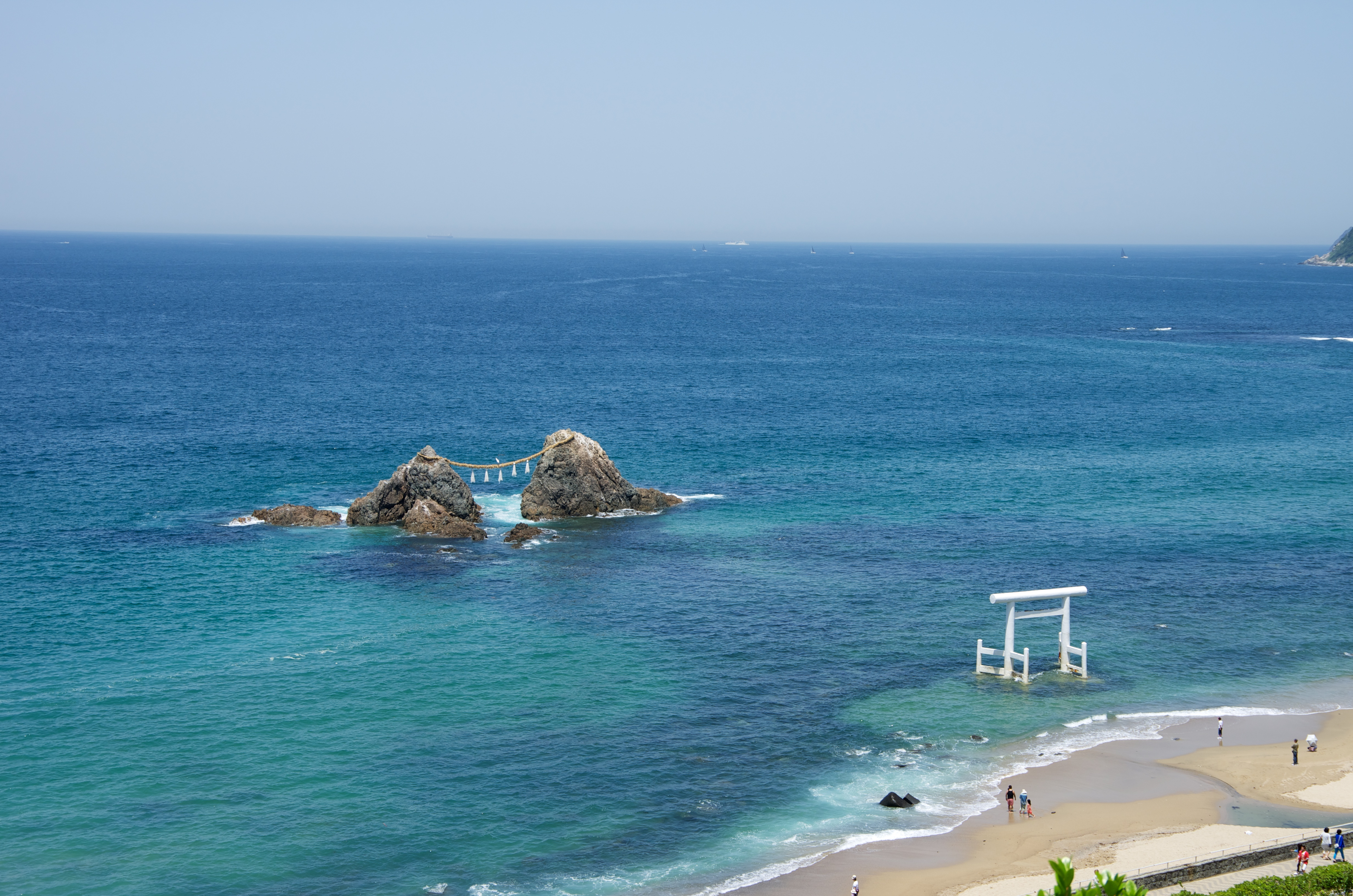 A view of a famous white torii in western Japan. Article at